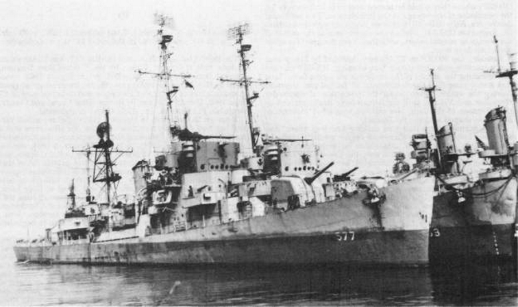 The U.S. Navy destroyer escort USS Alexander J. Luke (DER-577) at New York City (USA) on 1 June 1946, following her conversion to a radar picket ship.